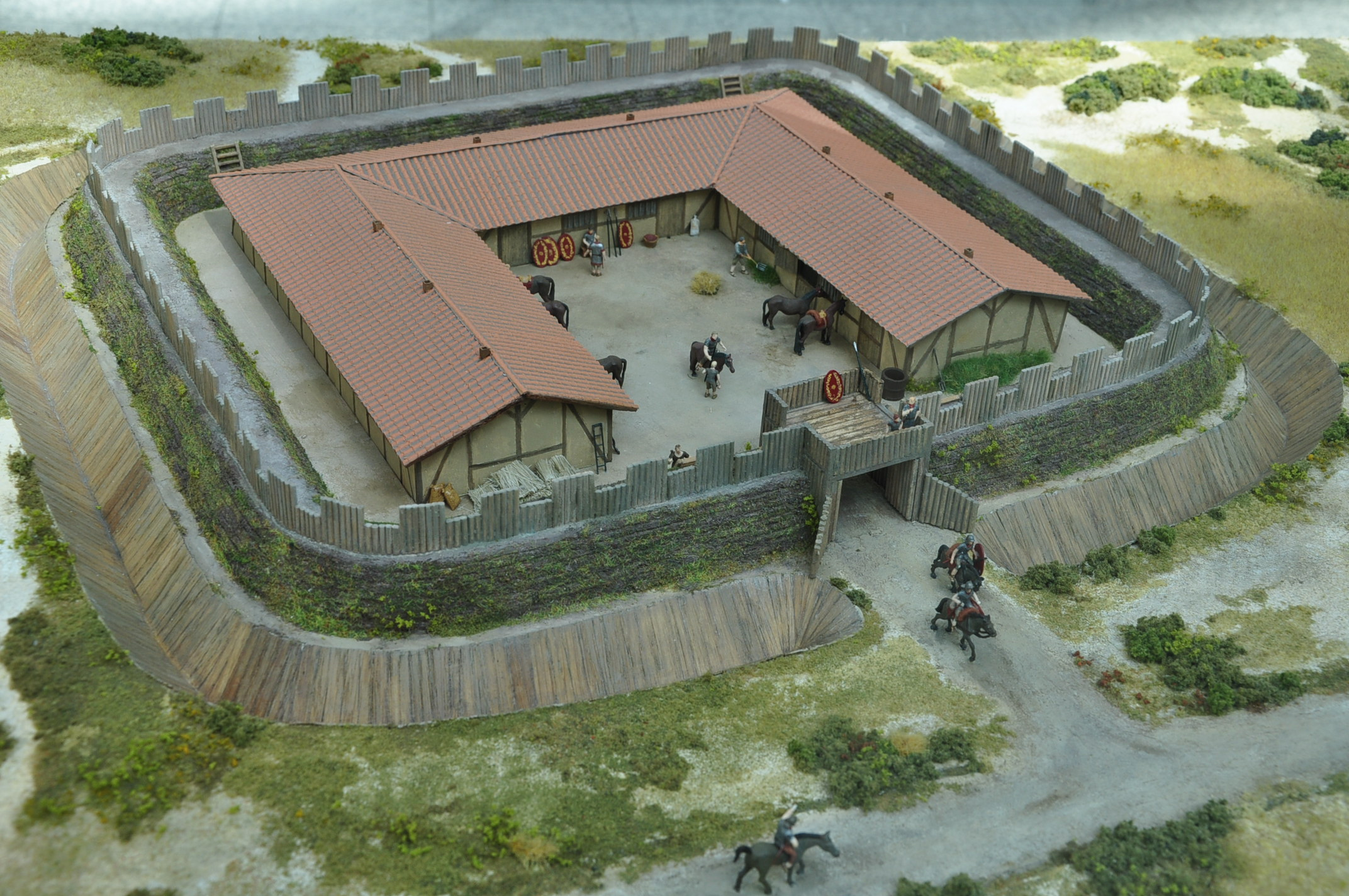 A model of the Roman mini-fortress that stood at Ockenburgh, near The Hague (Netherlands) from 150- 180 AD. The model was built on the basis of archaeological data, and was part of an public exhibition in the atrium of the city hall of The Hague, June-July 2012.